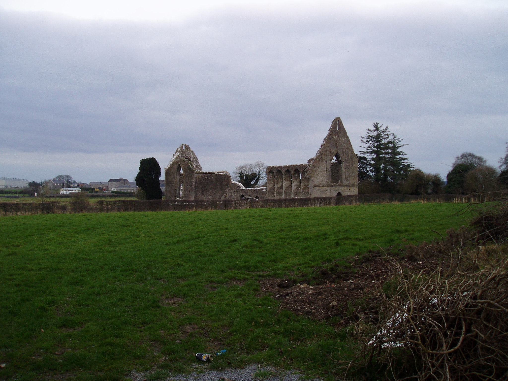 Roscommon Abbey, Co. Roscommon, Ireland